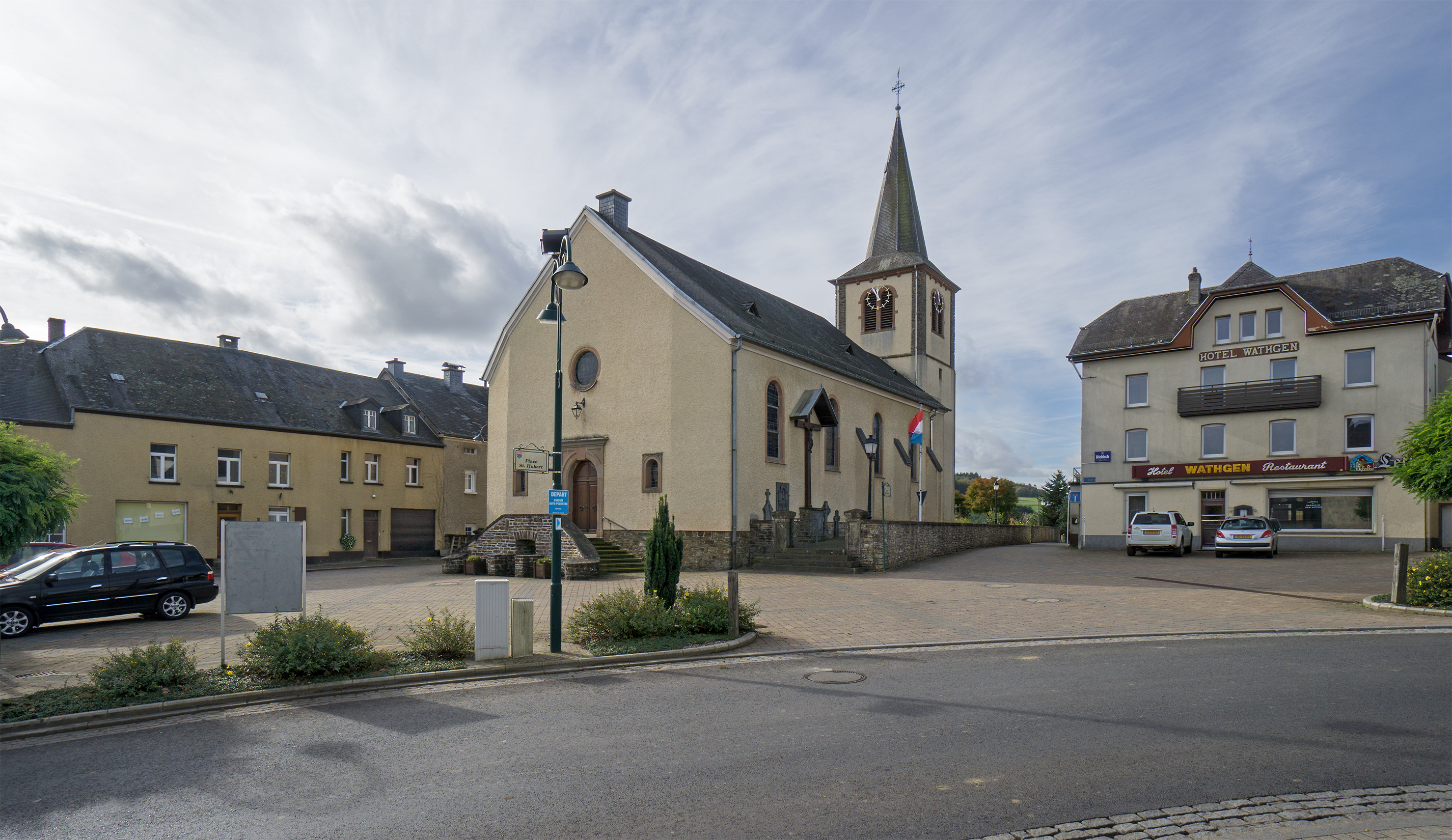 Church of Harlange